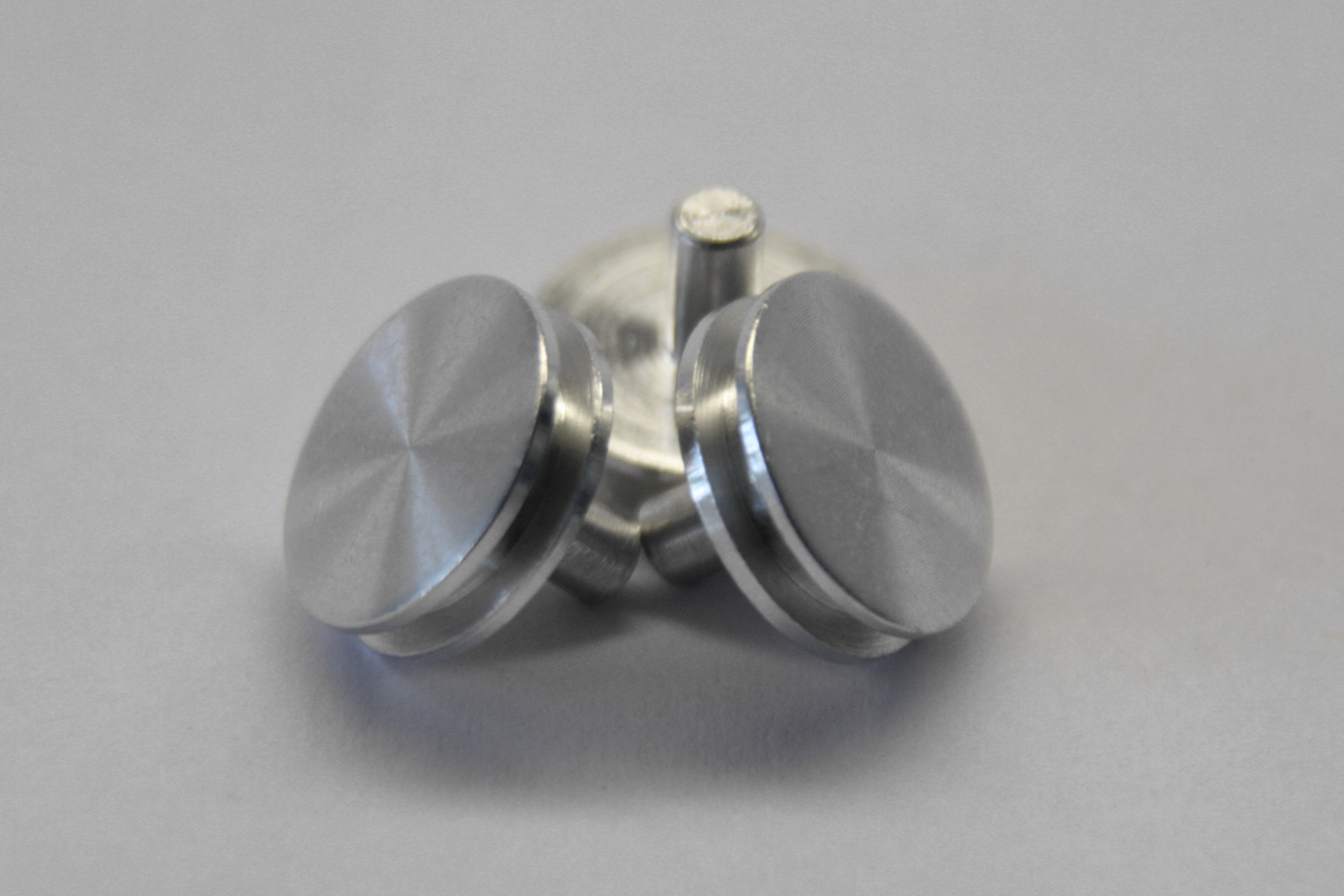 13mm radius aluminium stubs (the base to support and prepare a sample on) for preparation for scanning electron microscopy (SEM).